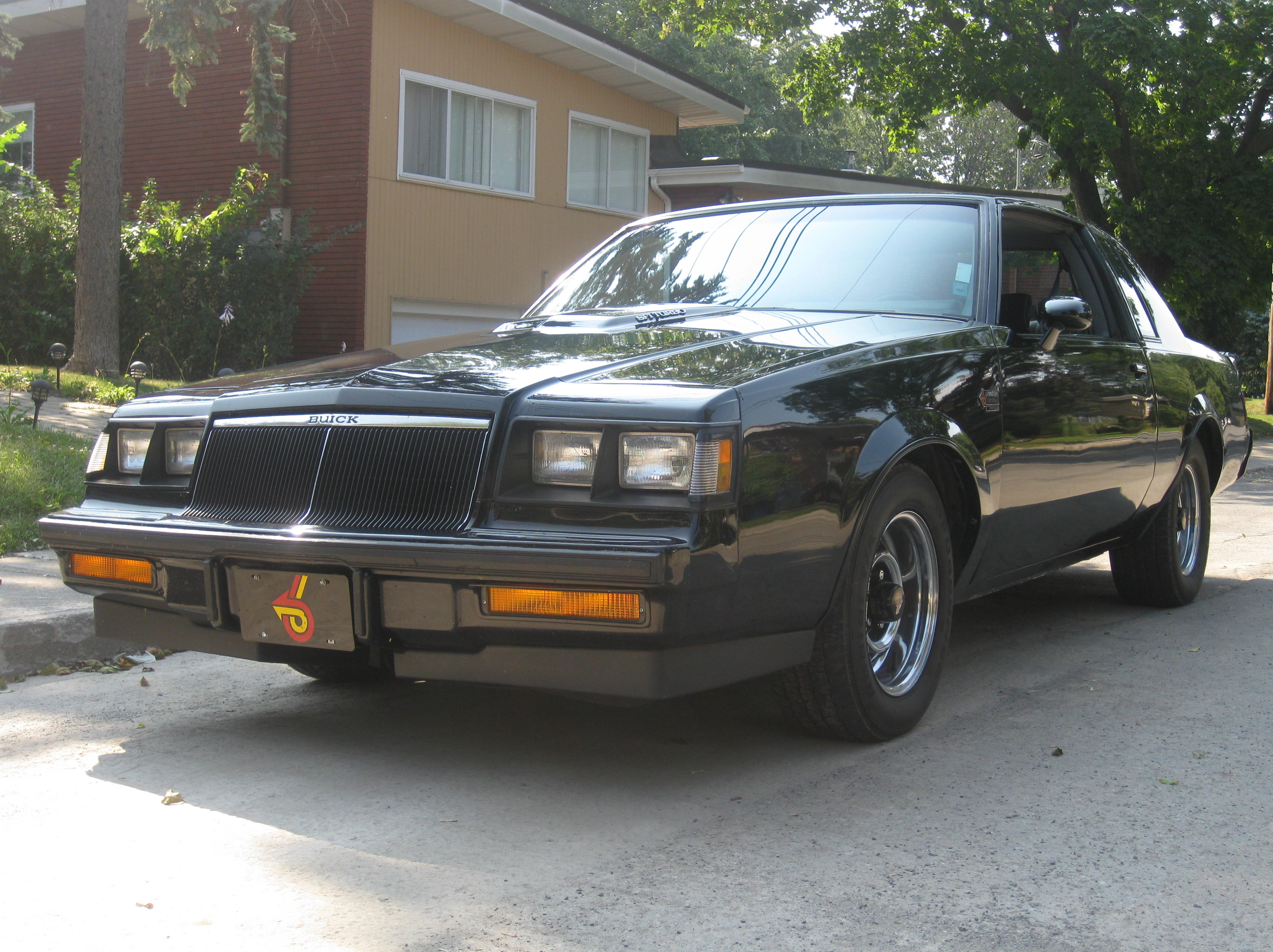 1986 Buick Grand National